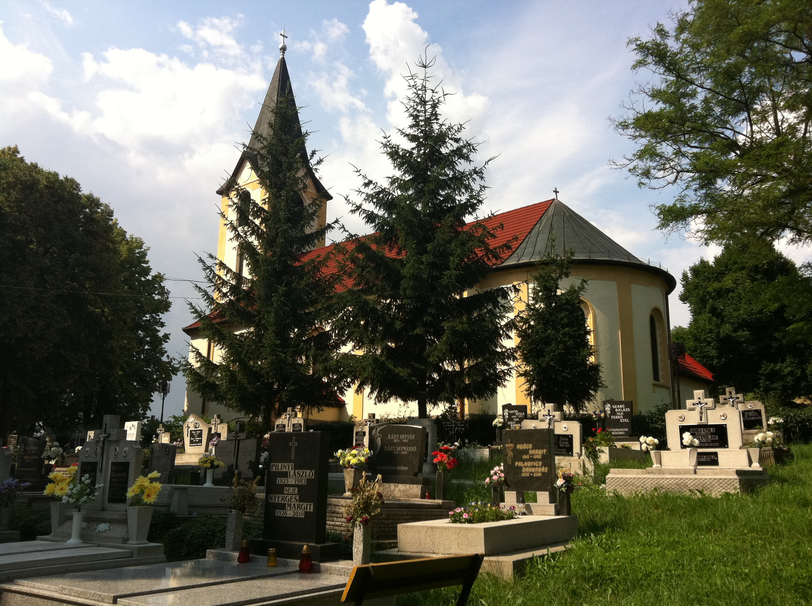 Mihálygerge, Hungary. "Magyarok Nagyasszonya" Roman Catholic church.